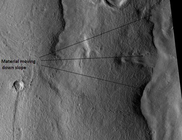 Material moving down slope in Phlegra Montes, as seen by hirise. Location is 38.2 degrees north latitude and 165.4 degrees east longitude. Image was taken by the Mars Reconnaissance Orbiter's HiRISE. The HiRISE camera was built by Ball Aerospace and Technology Corporation and is operated by the University of Arizona. Image courtesy NASA/JPL/University of Arizona.